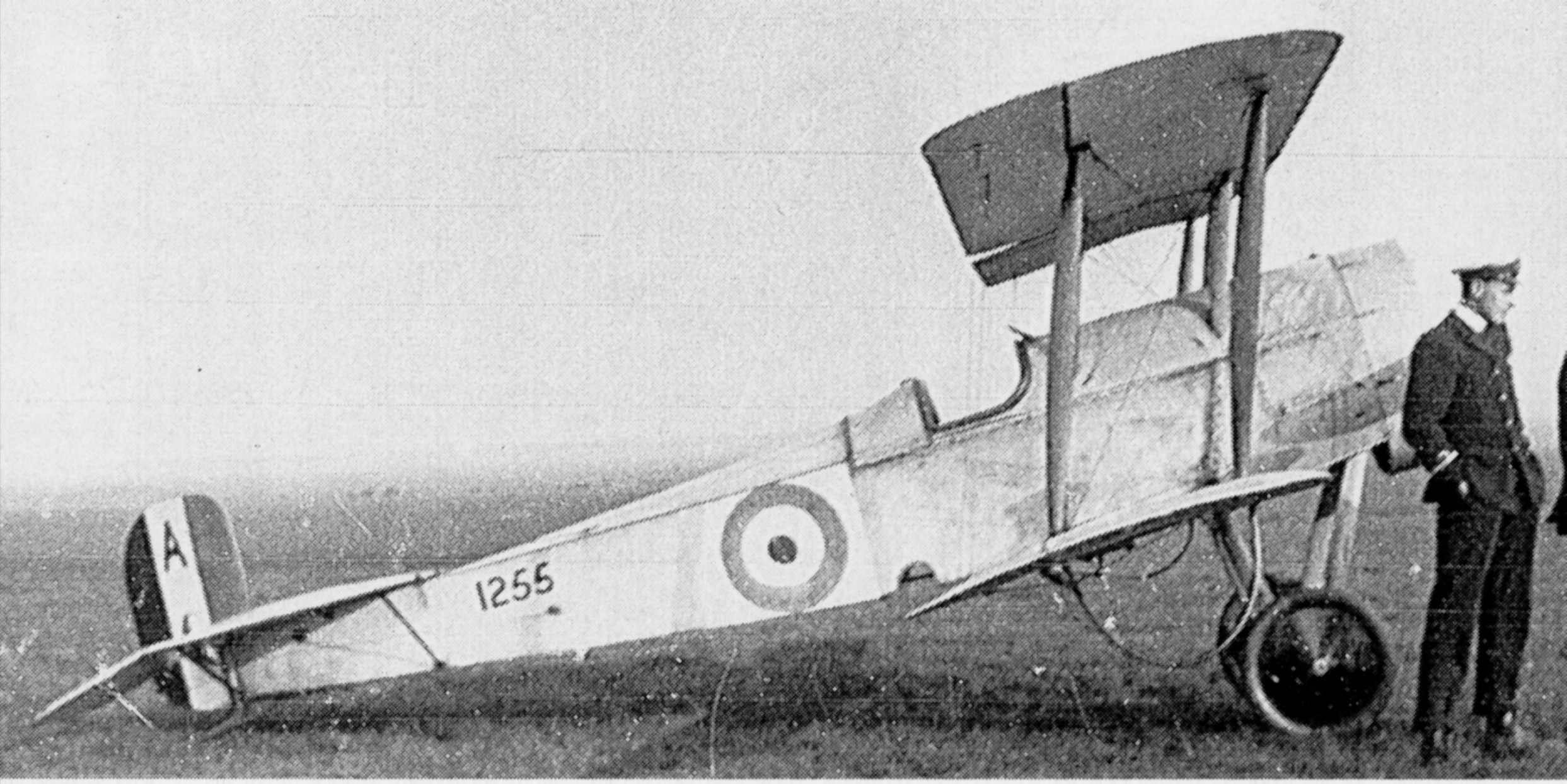 Example of an early Bristol Scout C (No.1255) in RNAS service, with raised rear cockpit structure to accommodate the engine oil tank.